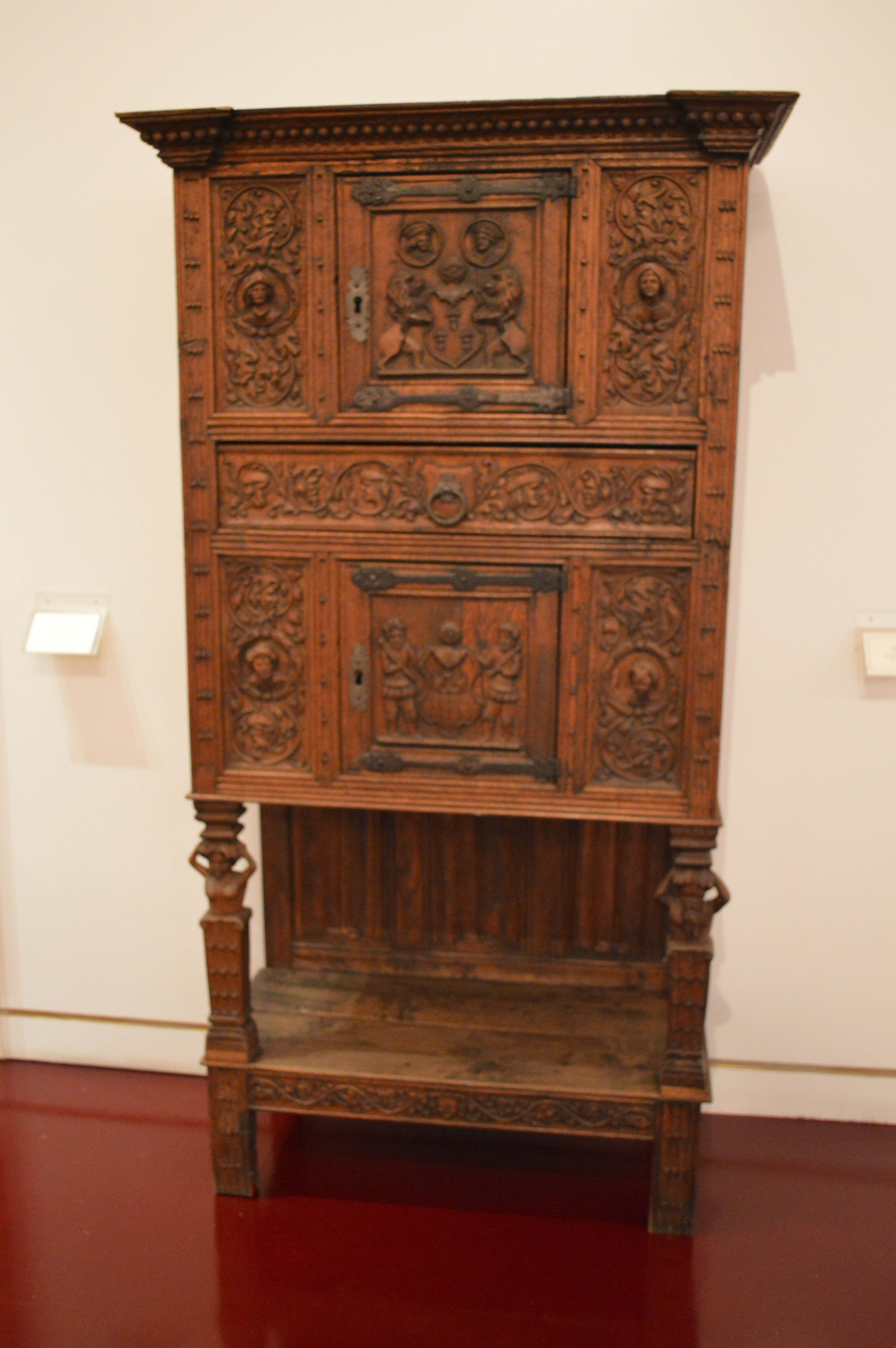 18th century credenza at the Museum of Fine Arts in Toluca, Mexico